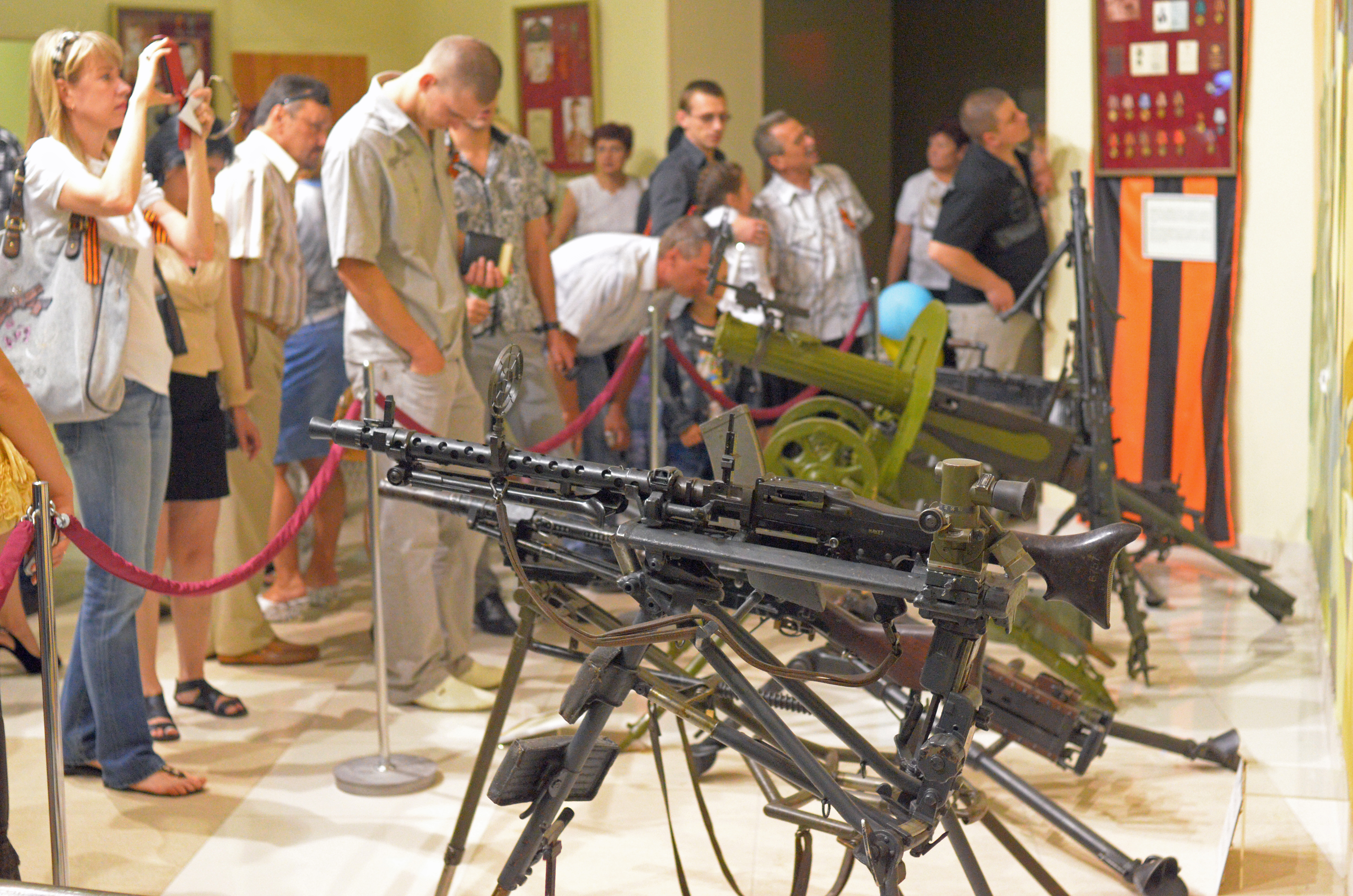 Russian Victory Day in Donetsk. German MG 34 general purpose machine gun mounted on a Lafette 34 tripod with MG Z 34 telescopic sight attached